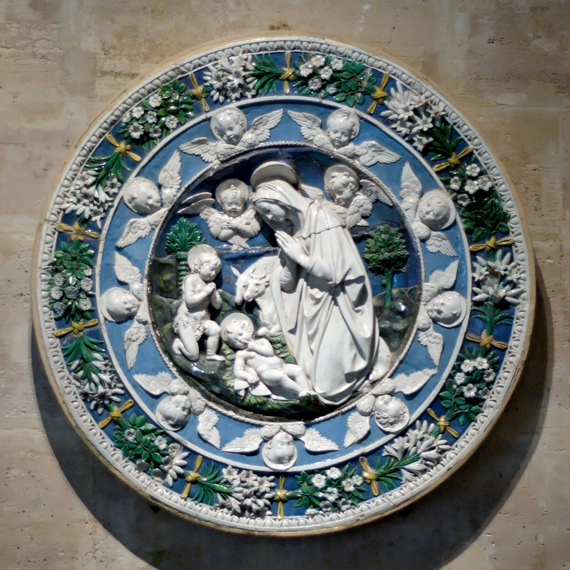 Madonna adoring the sleeping Child with St. John the Baptist as a child and two cherubims. Glazed terracotta, ca. 1500.